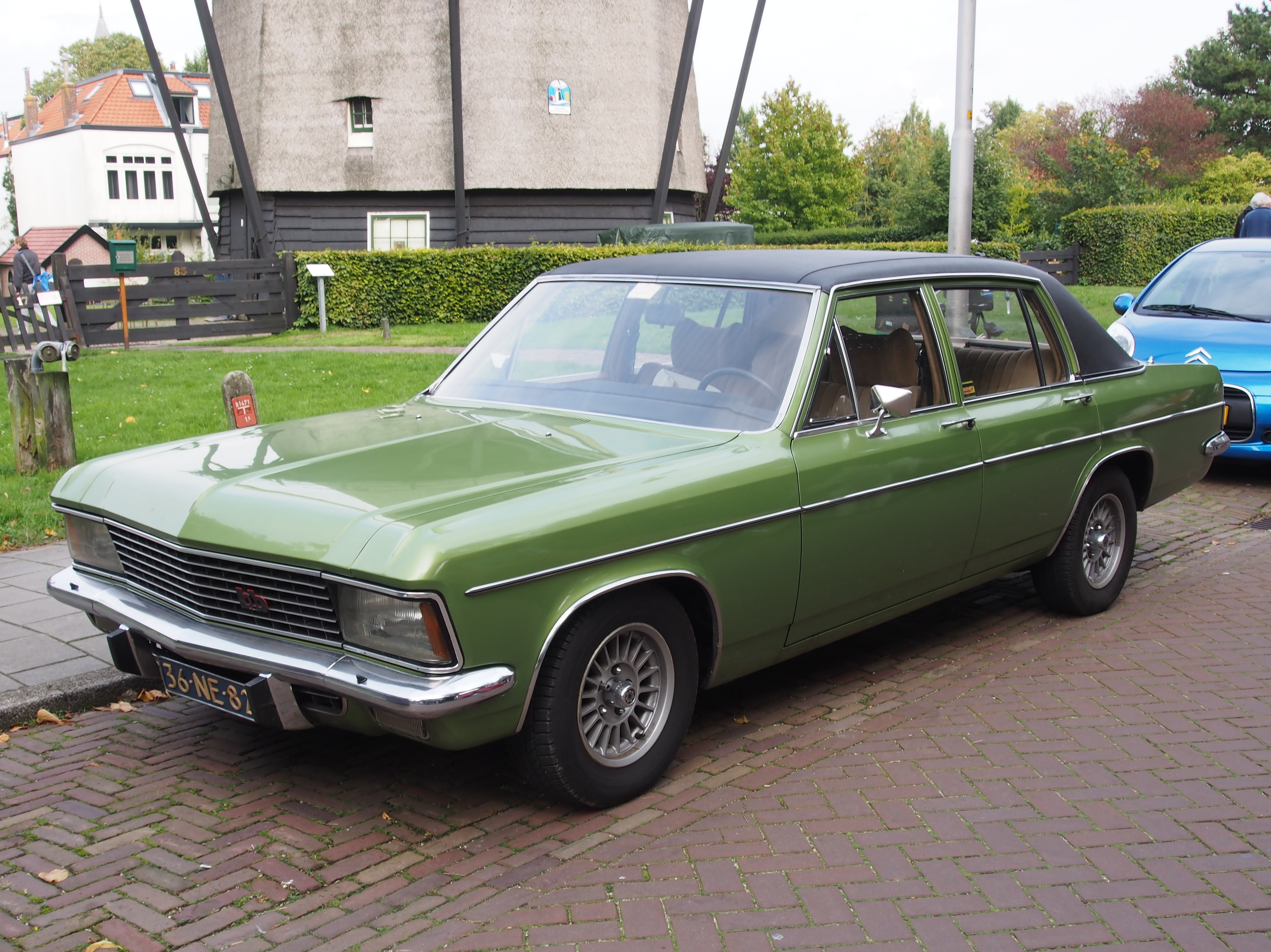 Some old cars gathering in Santpoort, The Netherlands.